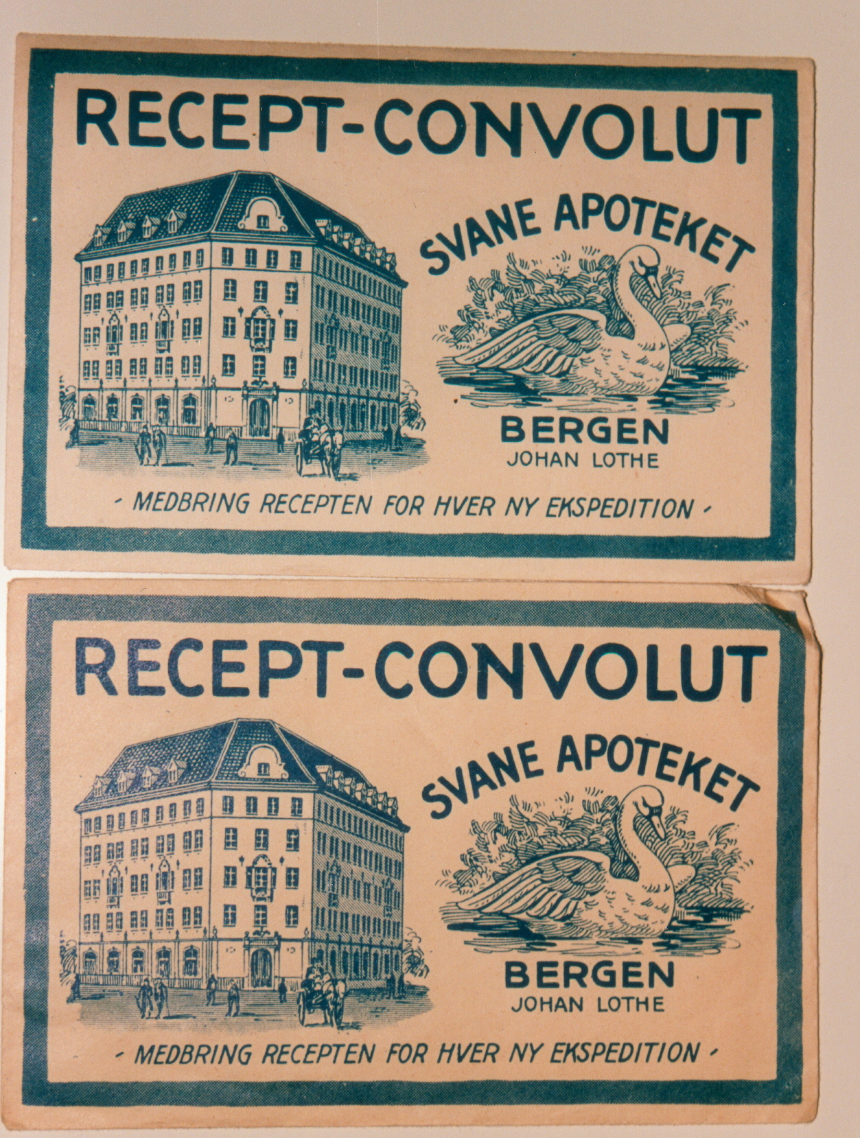 Medical prescriptions of the pharmacy Svaneapotek in Bergen, Norway